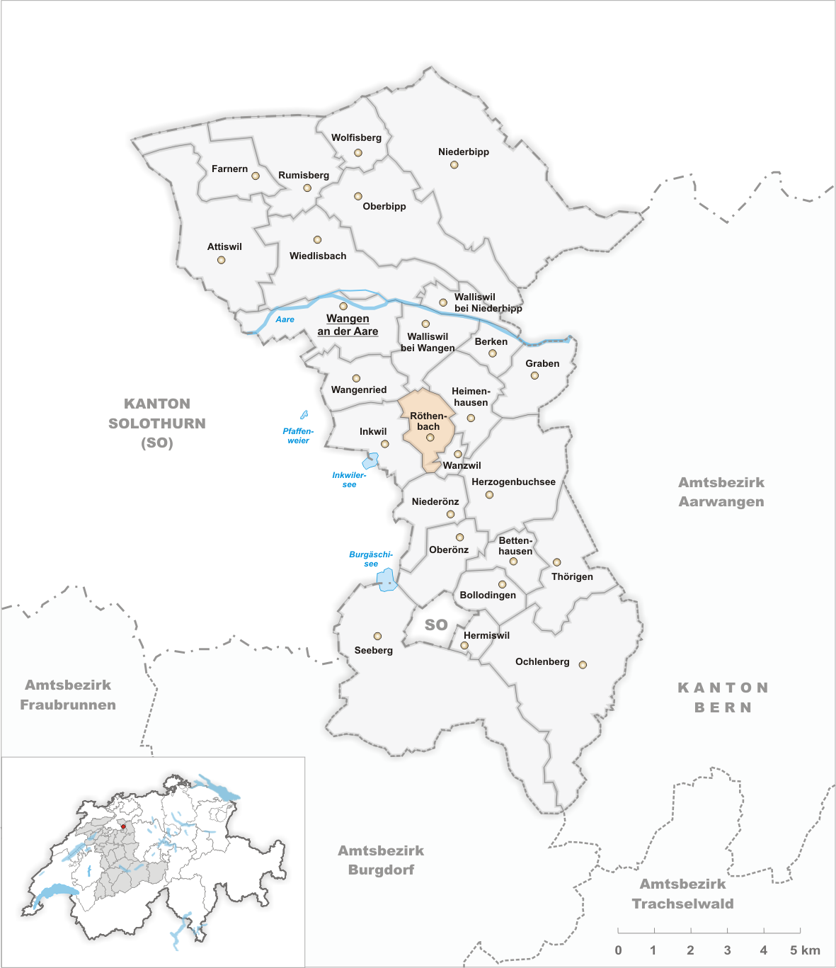 Municipality Röthenbach